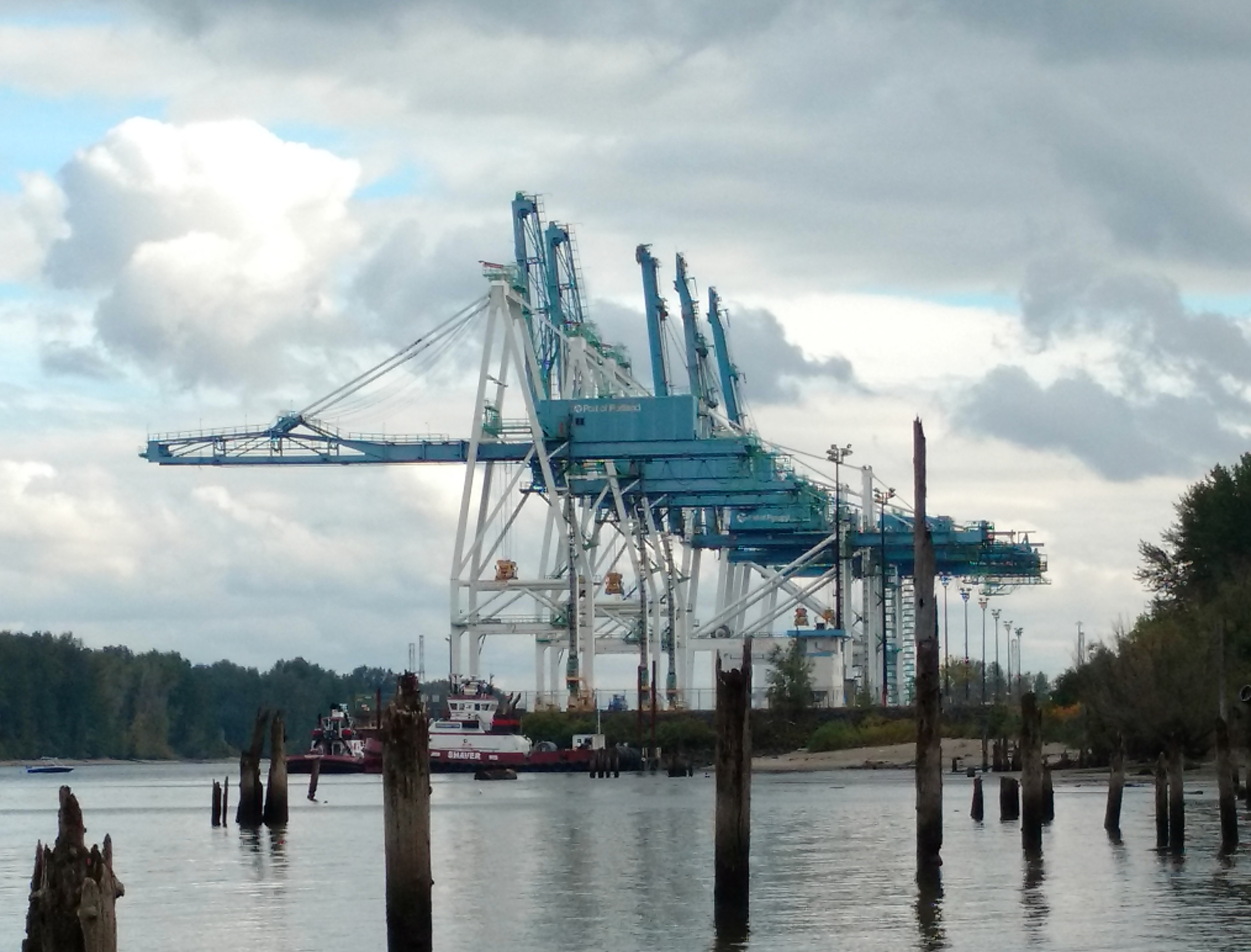 Marine Terminal 6 cargo cranes from Kelly Point Park in Portland, Oregon.